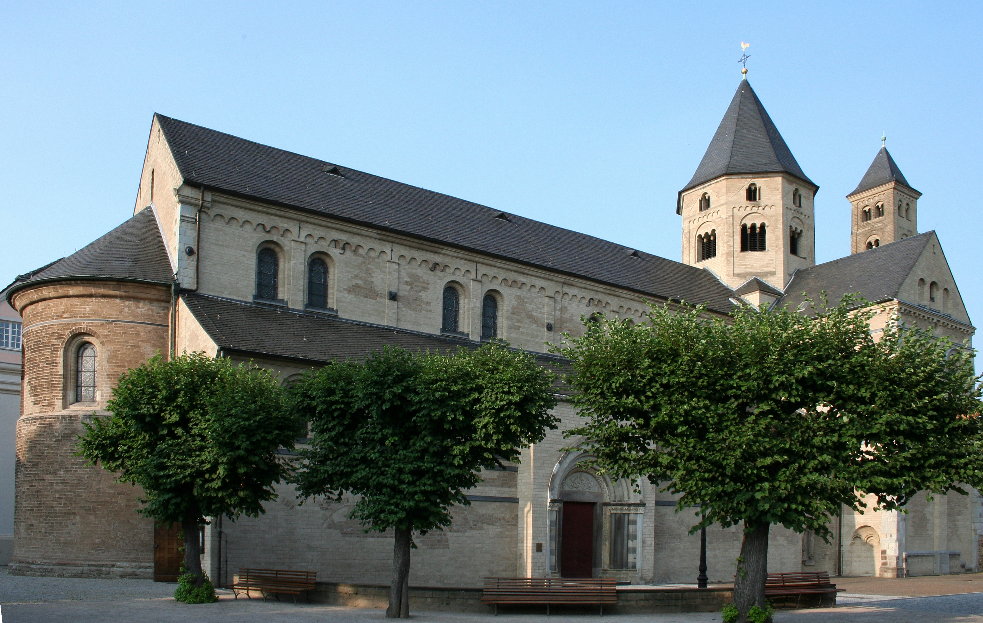 Basilica Knechtsteden, view from the South, Dormagen, Germany